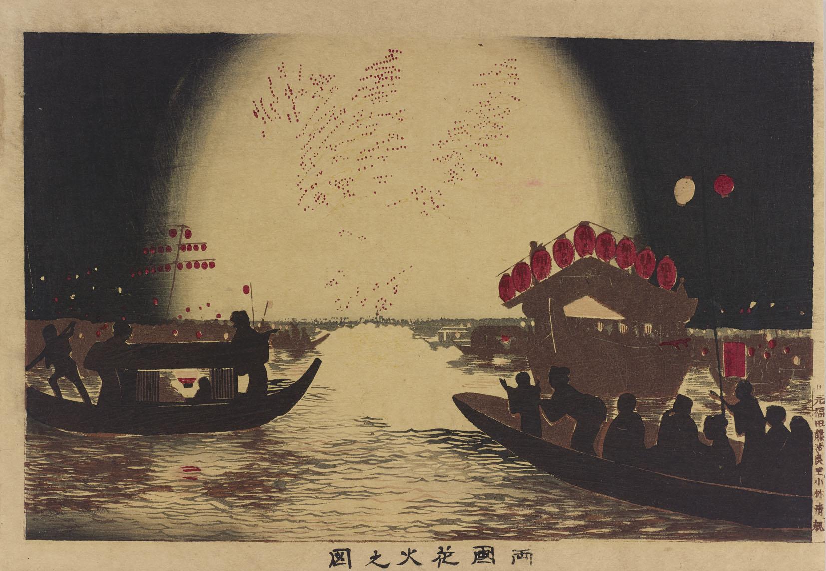 Ukiyo-e print